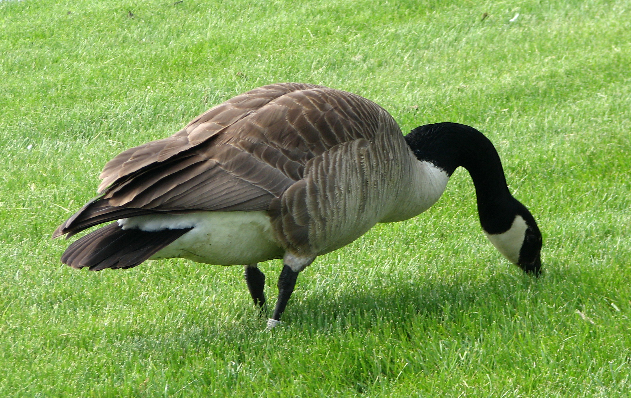 a goose (Branta canadensis) finding something to eat.